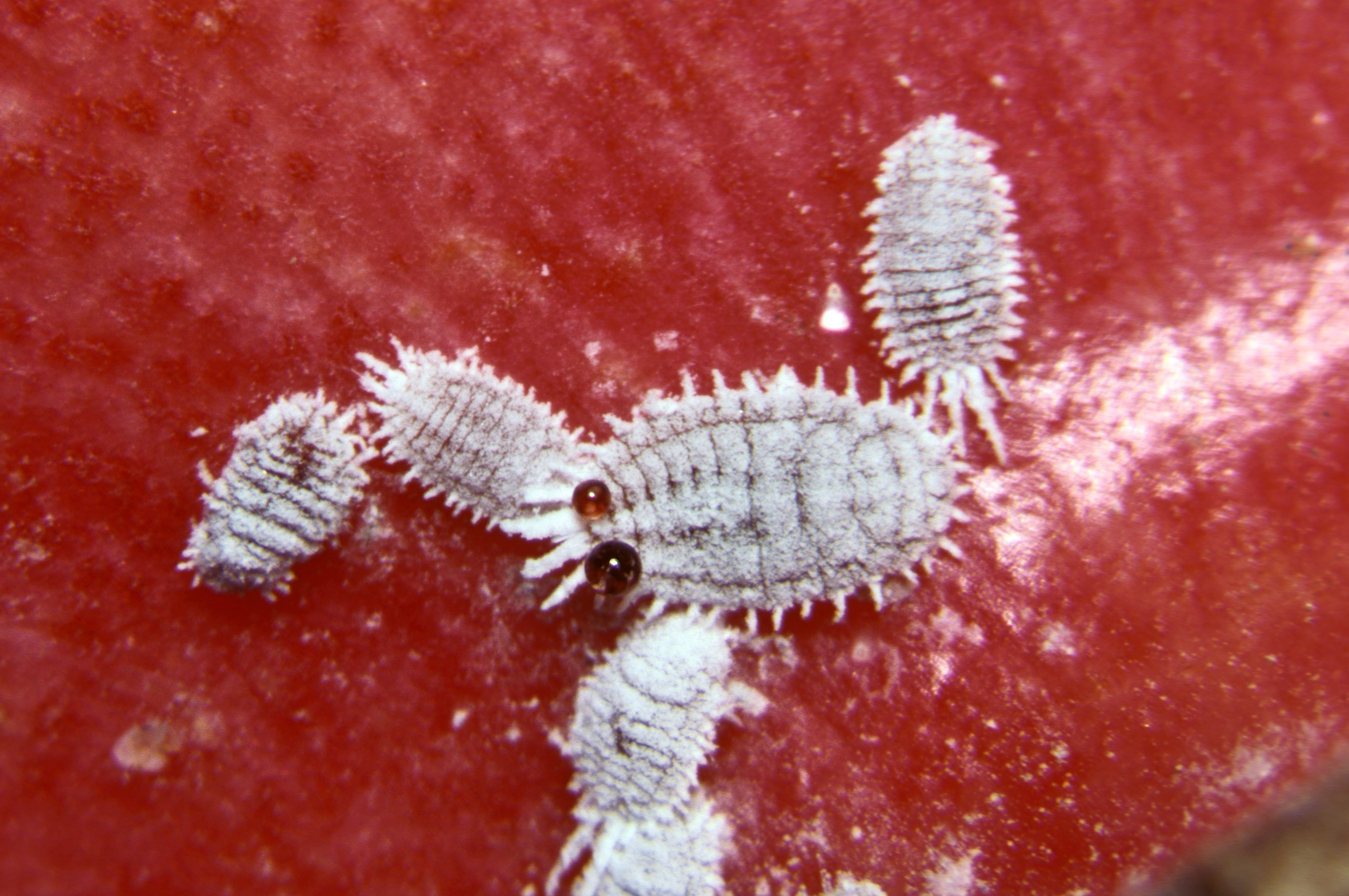 Citrophilus mealybug. Pseudococcus calceolariae (Rhynchota: Pseudococcidae)